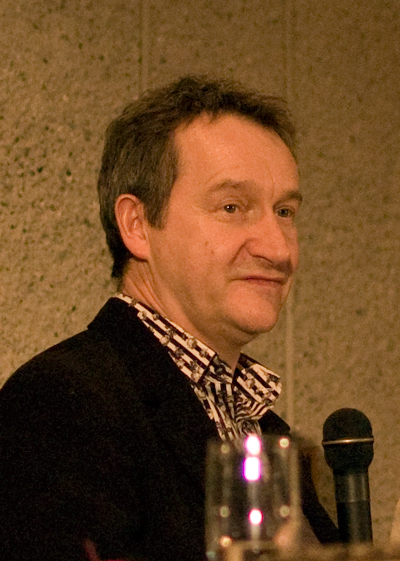 David Bintley CBE at the briefing session of the New National Theatre, Tokyo. He is to become its artistic director of ballet in September 2010.